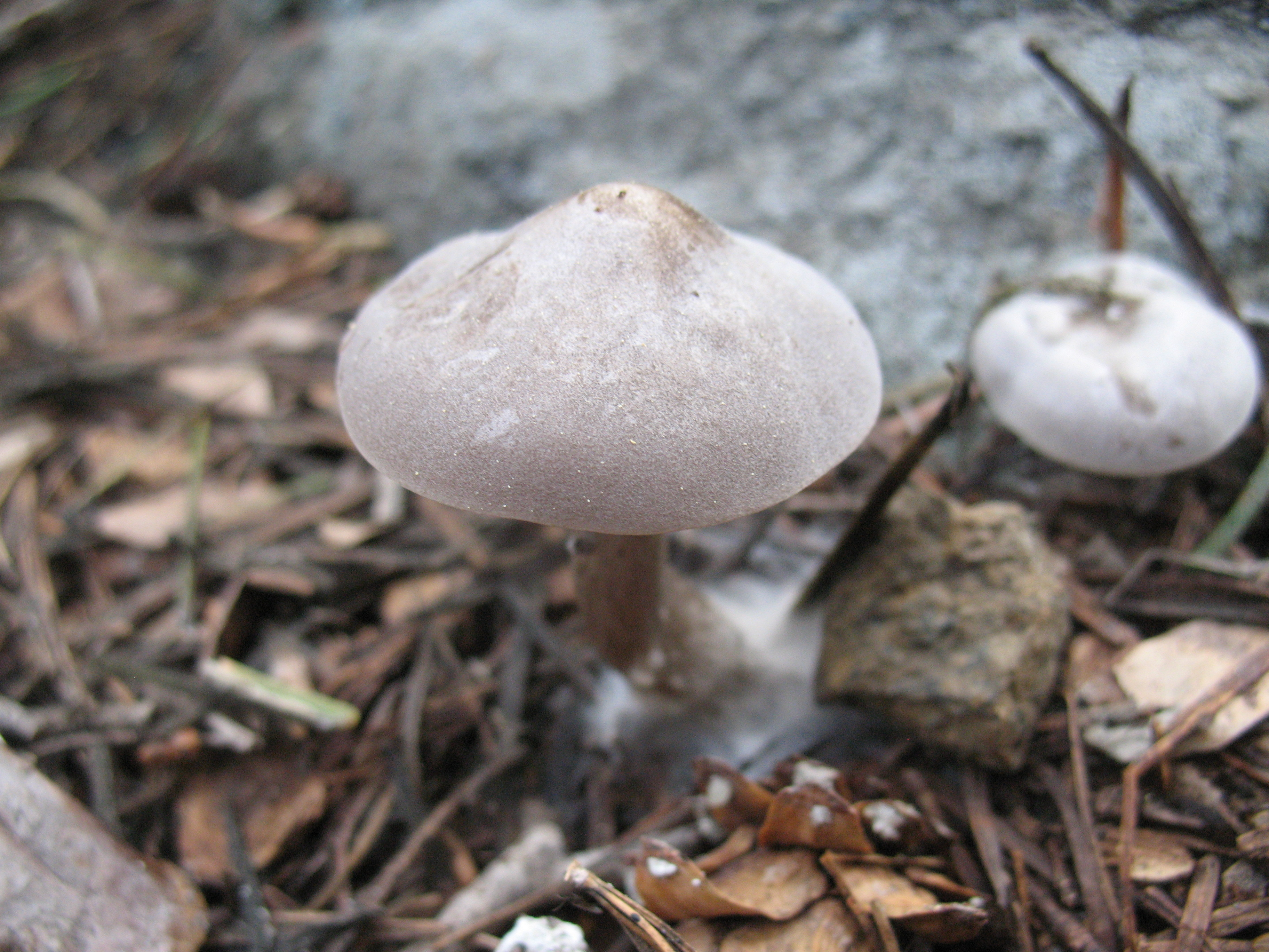 The snowbank mushroom Clitocybe glacialis Redhead, Ammirati, Norvell & Seidl. Photographed in Eastern Shasta-Trinity National Forest, California, USA. Notes: "Surrounded by snowmelt."